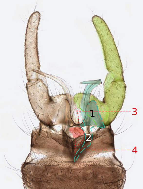 Male genitalia of Trichocera annulata after File:Trichocera annulata, Trawscoed, North Wales, Dec 2016 2 - Flickr - janetgraham84.jpg right side partly couloured and labeled. grass-green: gonopod, blue-green: paramer, little darker, N° 2: lateral appodem, only broken lined to show its hidden extend, N° 1: basal apodem; red: endophallus with N° 3 opening of endophallus and N° 4 ductus ejaculatorius File:Trichocera annulata, Trawscoed, North Wales, Dec 2016 2 - Flickr - janetgraham84.jpg is licenced CC-BY-2.0 so it would be fair to mention the name Janet Graham too